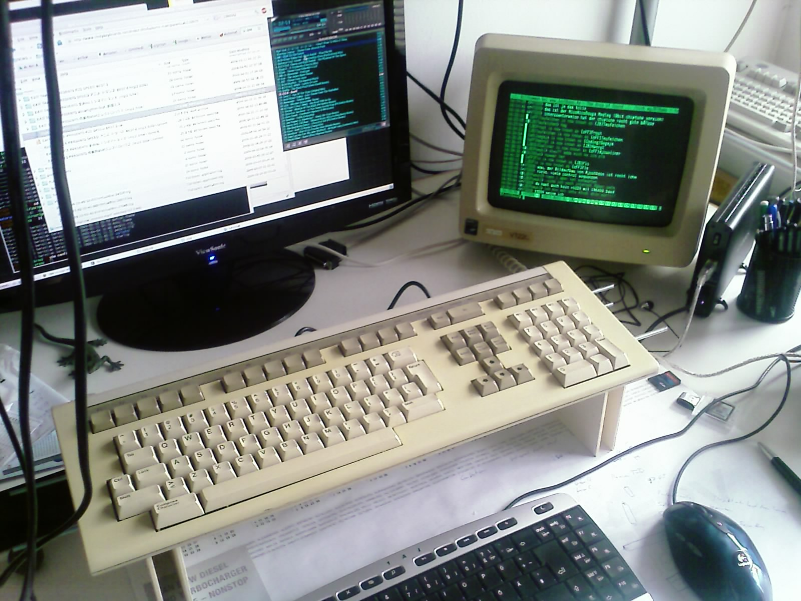 A DEC VT220 attached to the serial port of a computer, running Irssi.